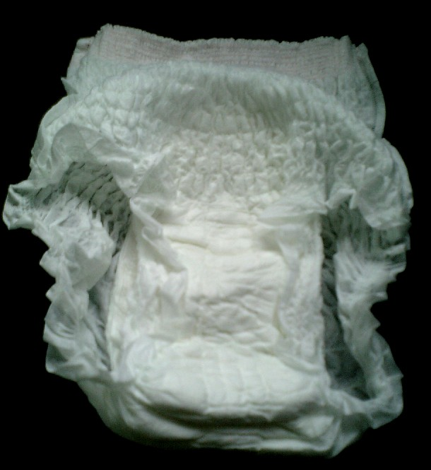 Sanitary Napkin